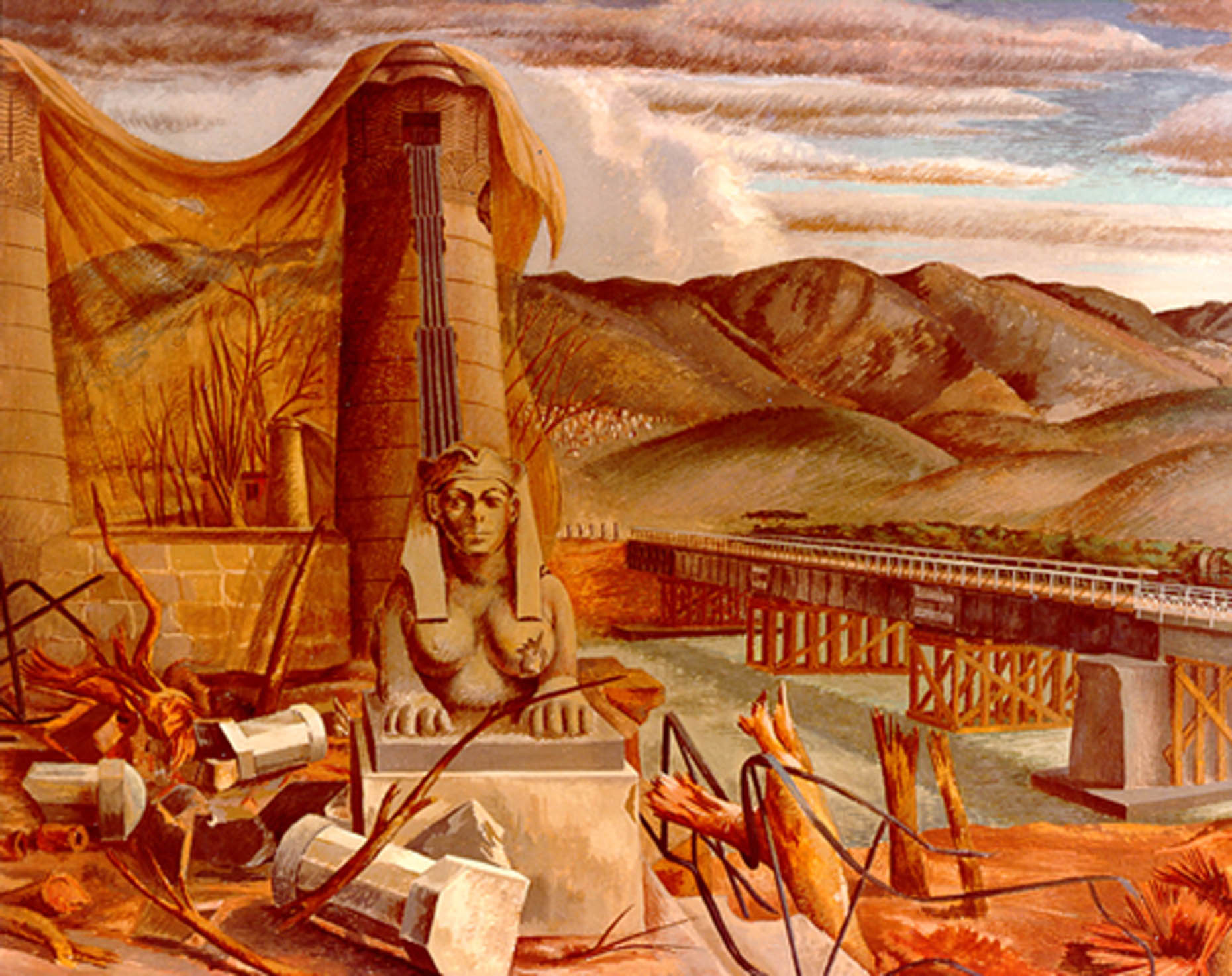 Painting: Garigliano River Bridge on Highway No. 7 Italy, 1944, by Ludwig Mactarian